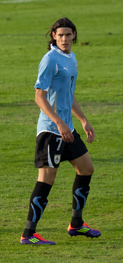 Edinson Cavani while playing for Uruguay NT against the Netherlands (8th June, 2011)